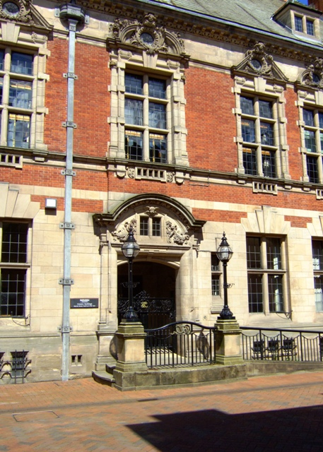 County Buildings, Martin Street, Stafford The main door to the C19th County Council buildings. Designed Henry Thomas Hare in 1893, the building itself was constructed by Henry Lovatt. The steps and railings, which prominently feature the Staffordshire Knot, were remodelled relatively recently when Martin Street was pedestrianised to provide improved access for the disabled.